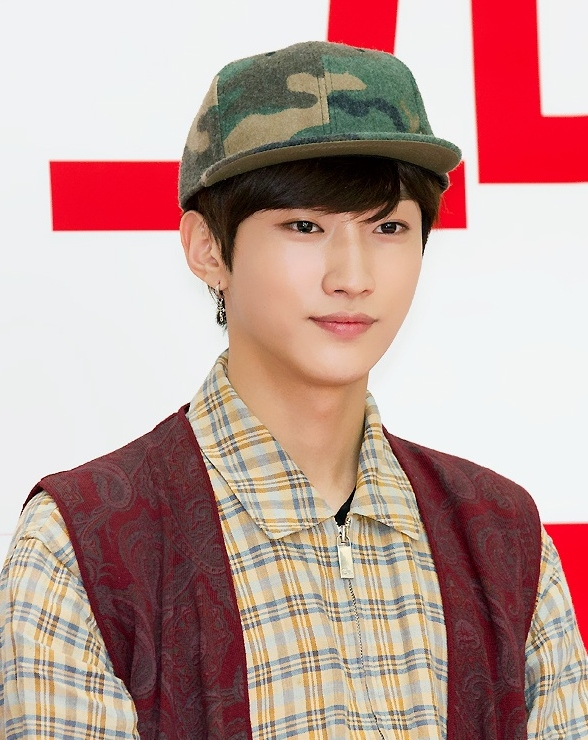 Jinyoung Jung in Hongdae on February 13, 2014.